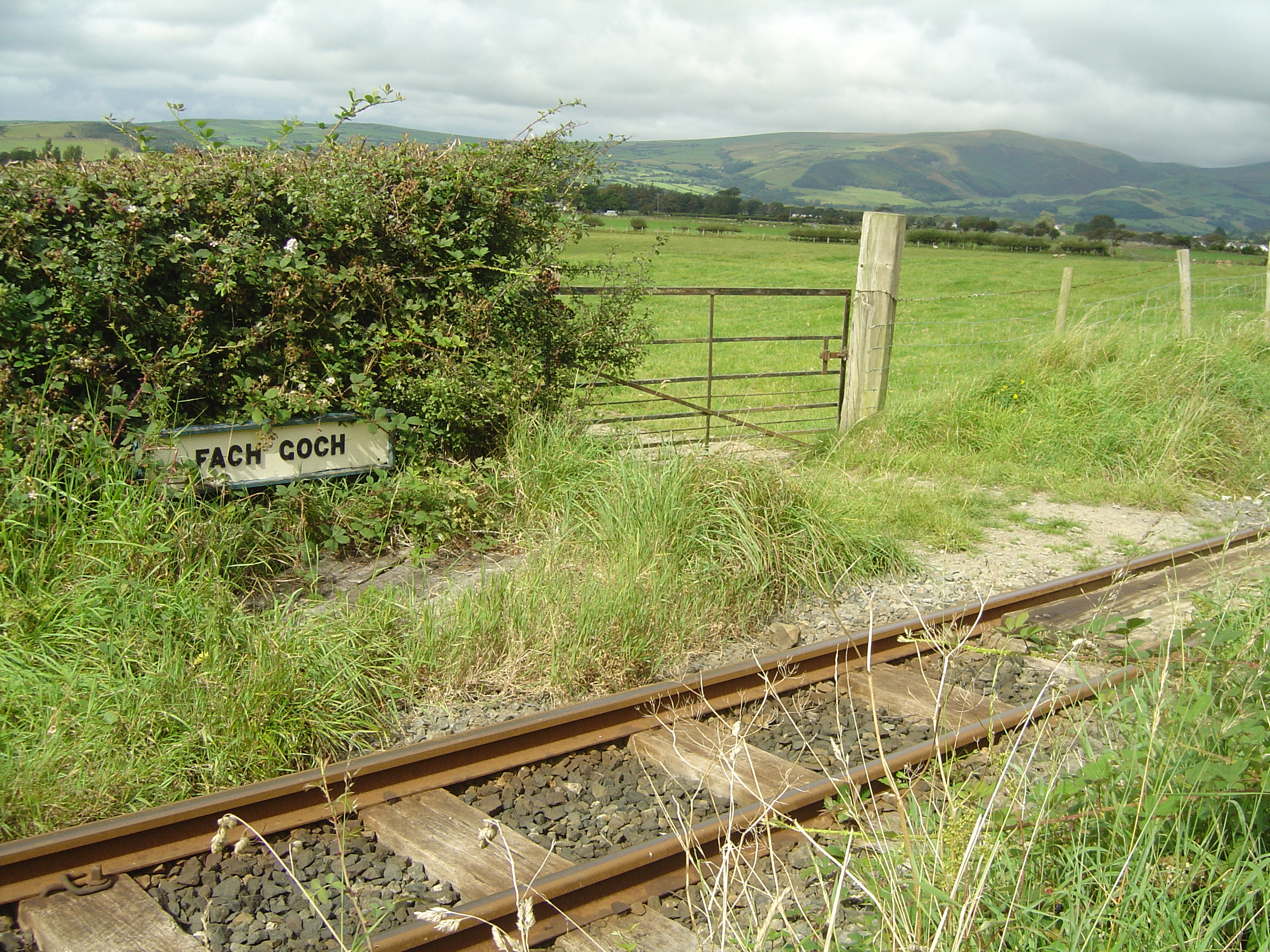 Talyllyn Railway: Fach Goch Halt